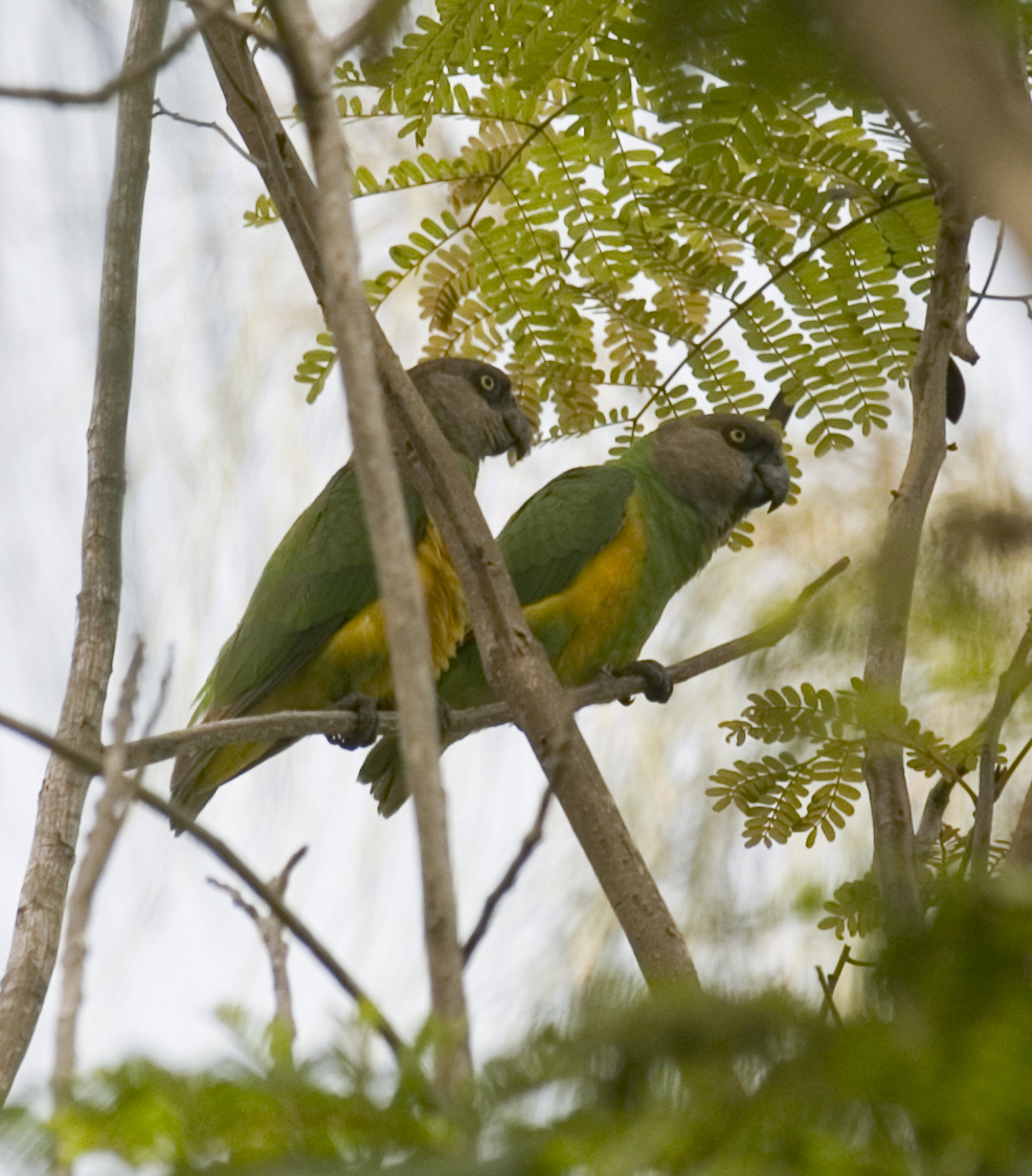 A pair of Senegal Parrots (Poicephalus senegalus) in a tree in Africa. The montage Sparrot-montage-forWiki.jpg uploaded by user:ThomHasi is now digitally enhanced and separated into its two components.